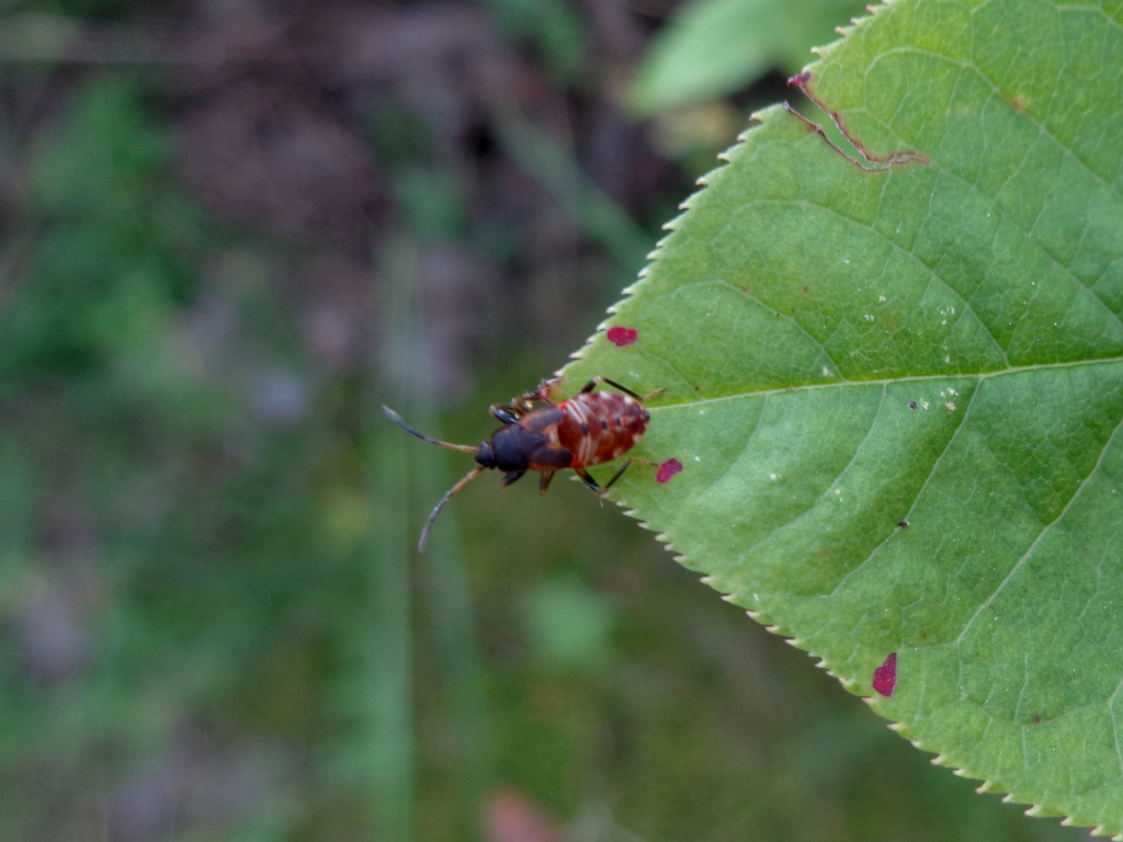 Arocatus longiceps. Found in Jurmala city, Latvia